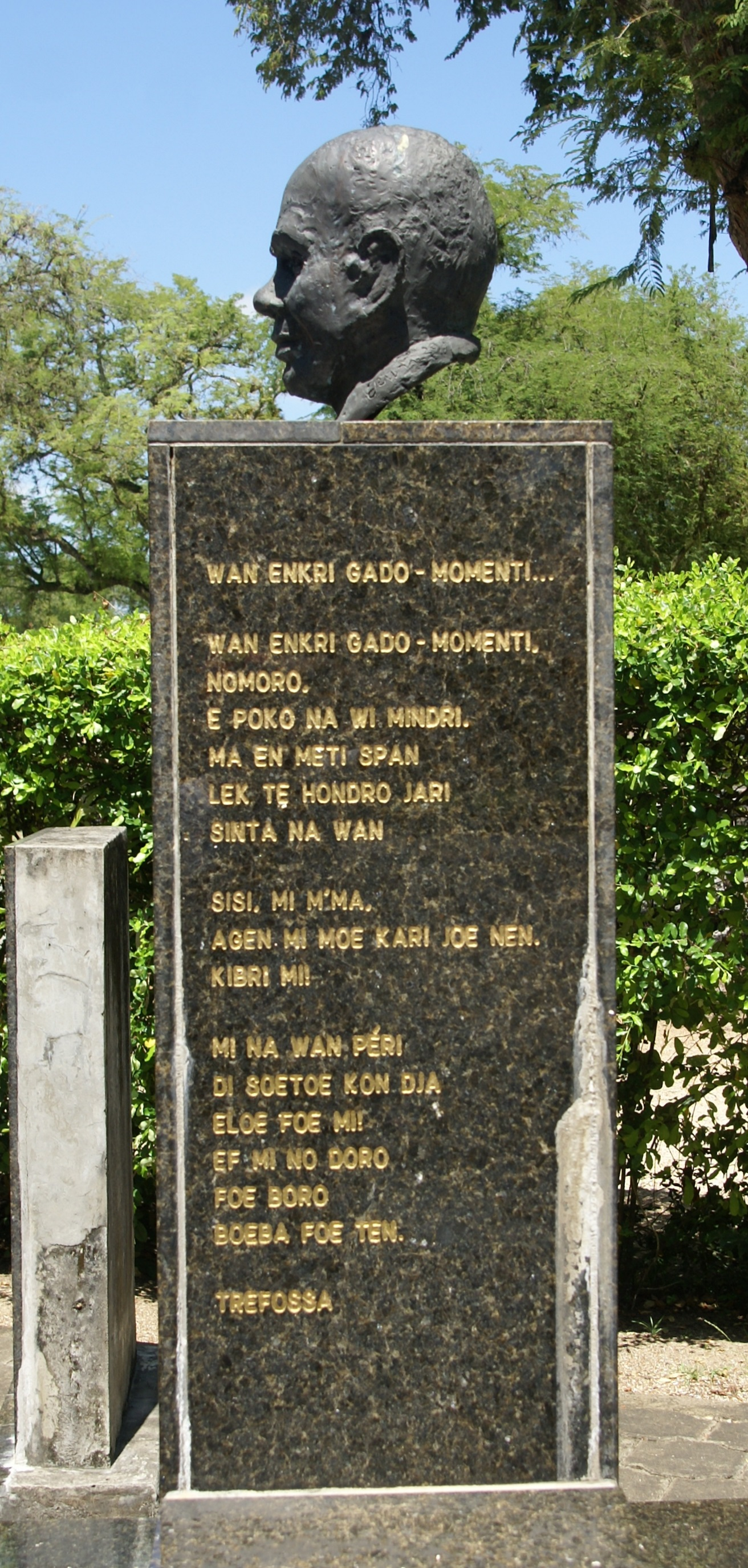 Bust of Trefossa, Kleine Combeweg, Paramaribo, Surinam. By Erwin de Vries, 2012. Poem "Wan enkri gado-momenti".